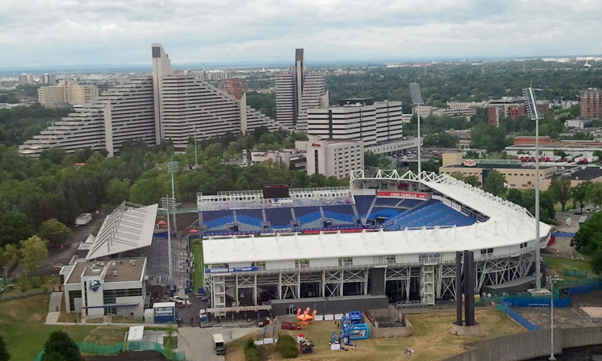 The Saputo Stadium in 2012, home venue for the Montreal Impact soccer team, view from the funicular of the Montreal tower of the Olympic Stadium